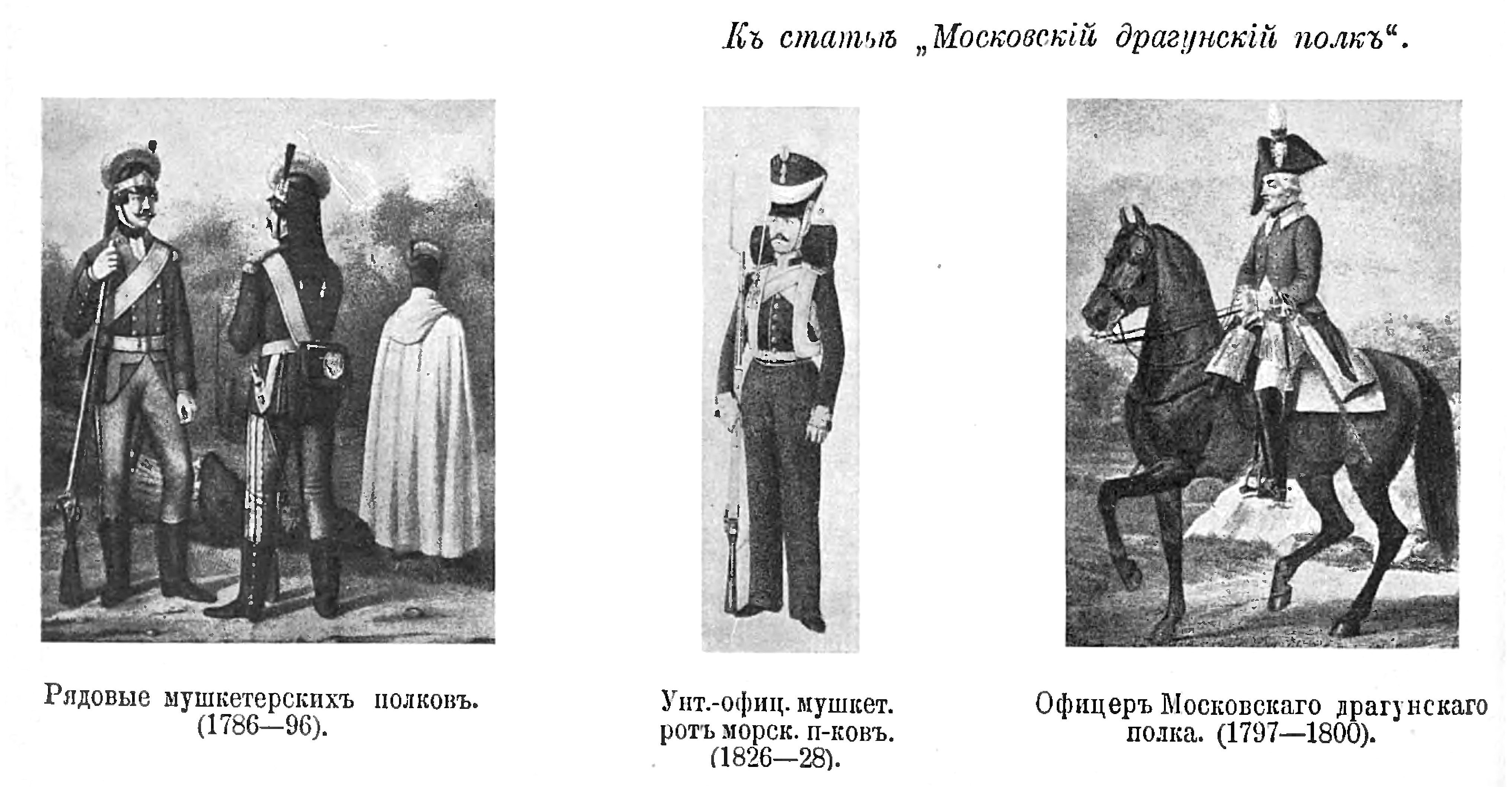 Moscow Dragoon Regiment